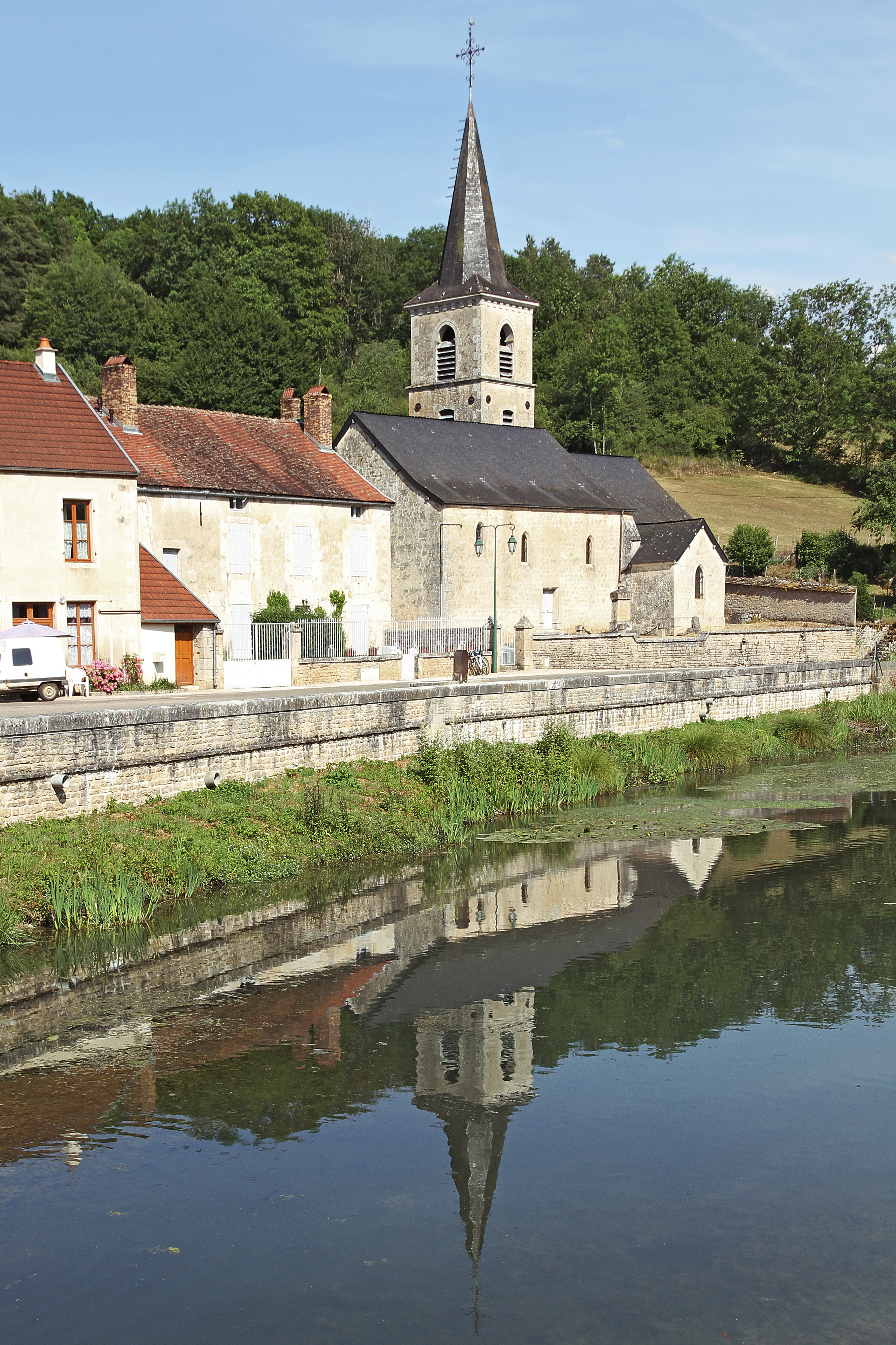 Church of the Nativity in Rochefort-sur-Brévon